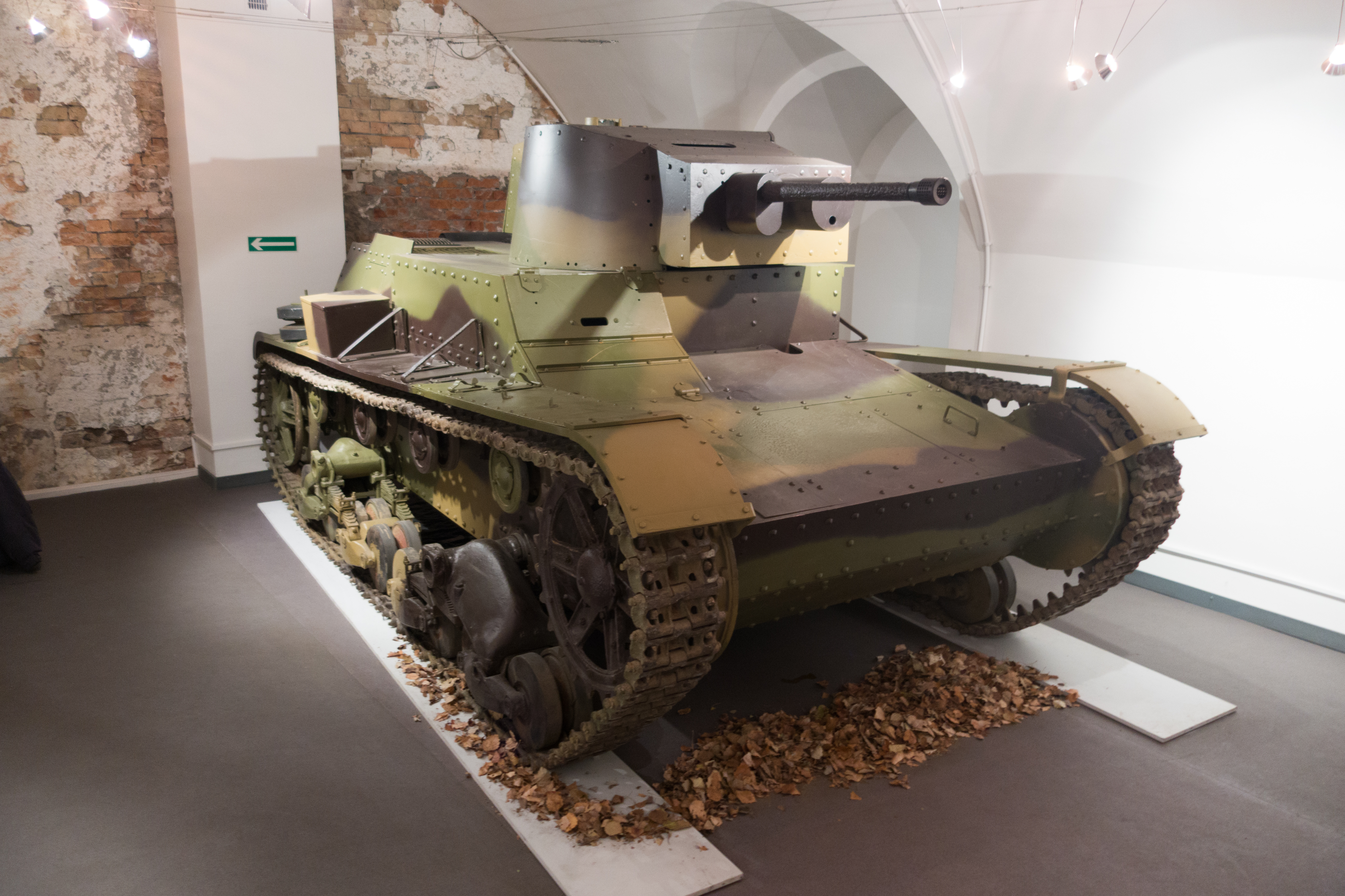 Poland 2012